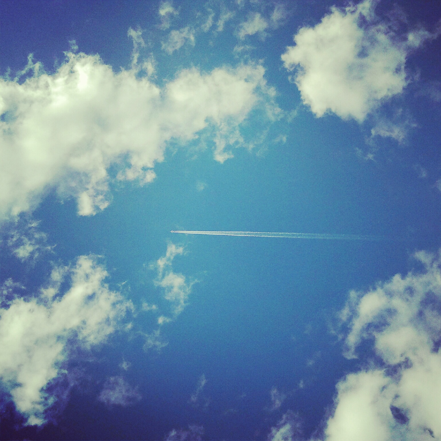 The Trace Of Plane In The Sky